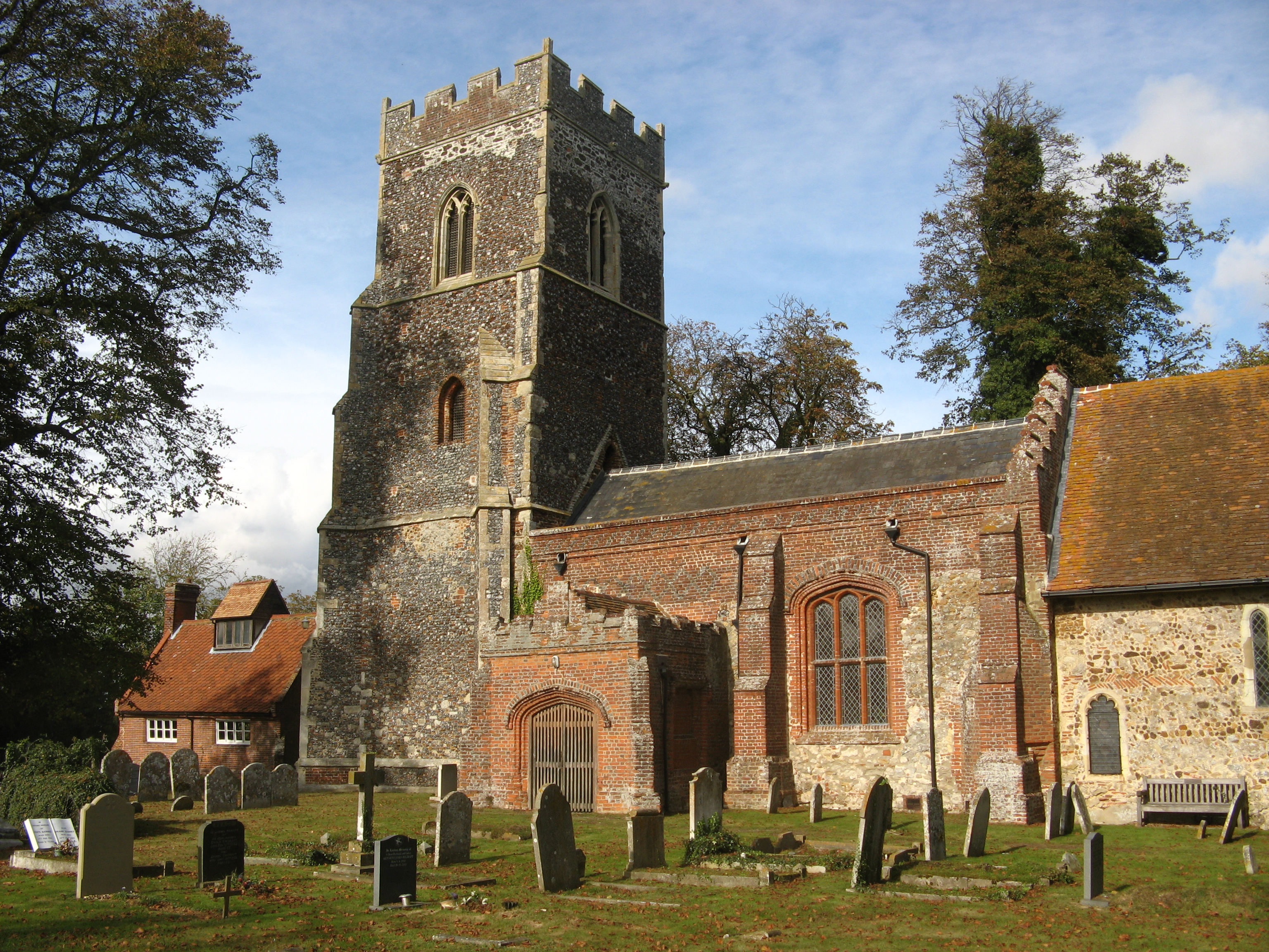 Church of St Mary, Church Road, Little Bentley, Tendring, Essex.[1] the church hall can be seen left of the tower.